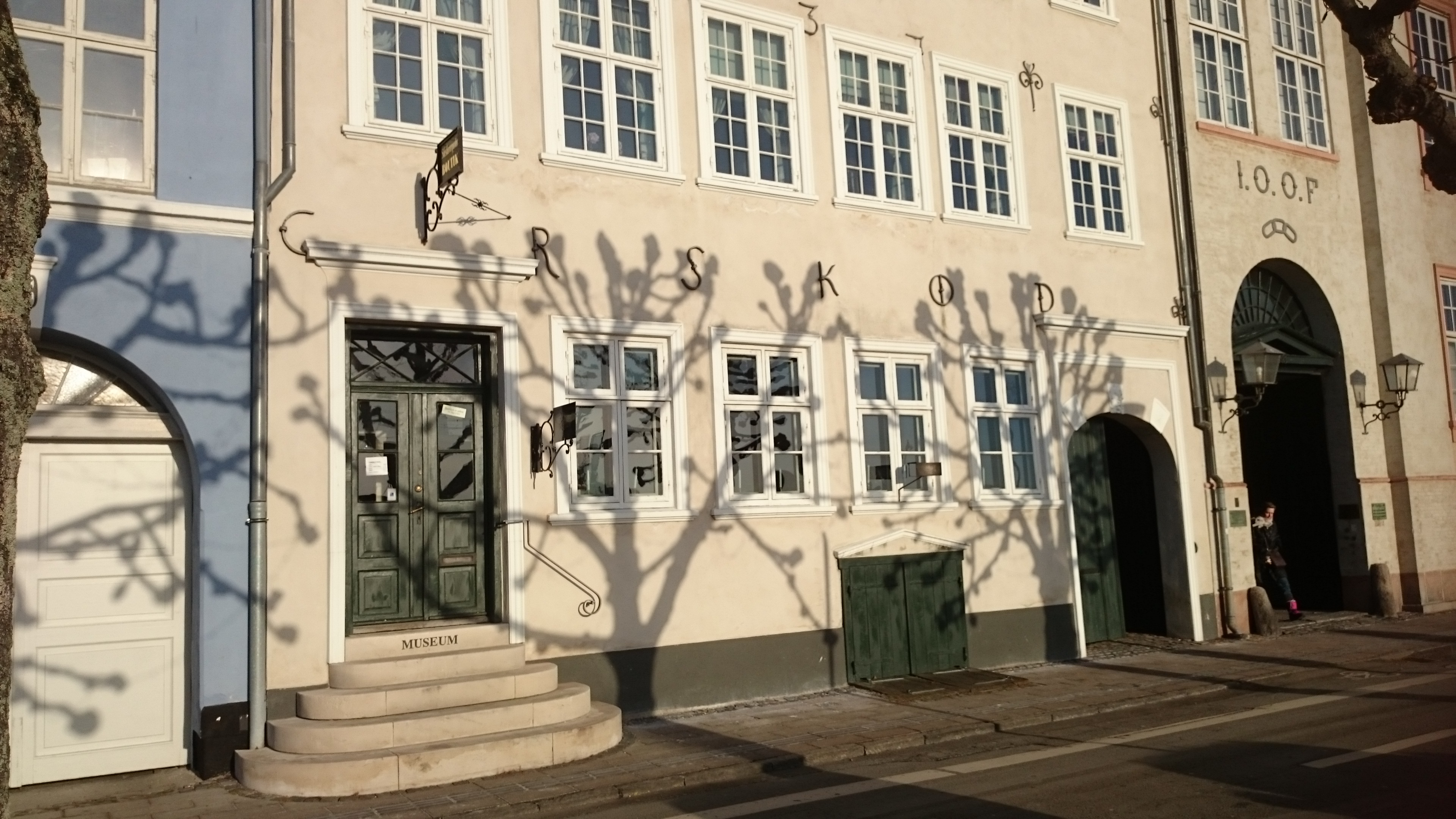 Entrance to the museum Skibsklarergaarden, which is a museum about the toll paid to cross Øresund.